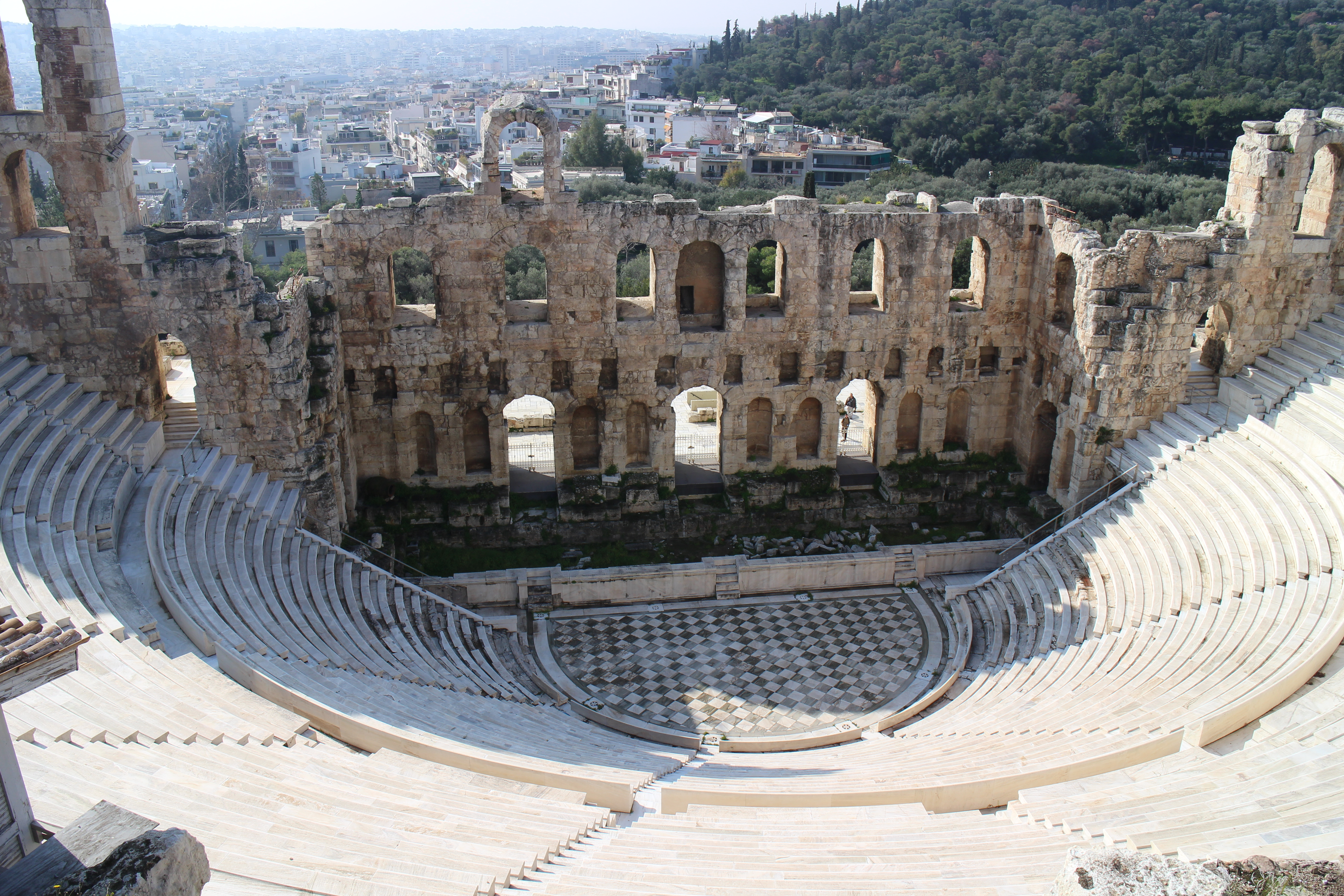 Theatre of Herodes Atticus